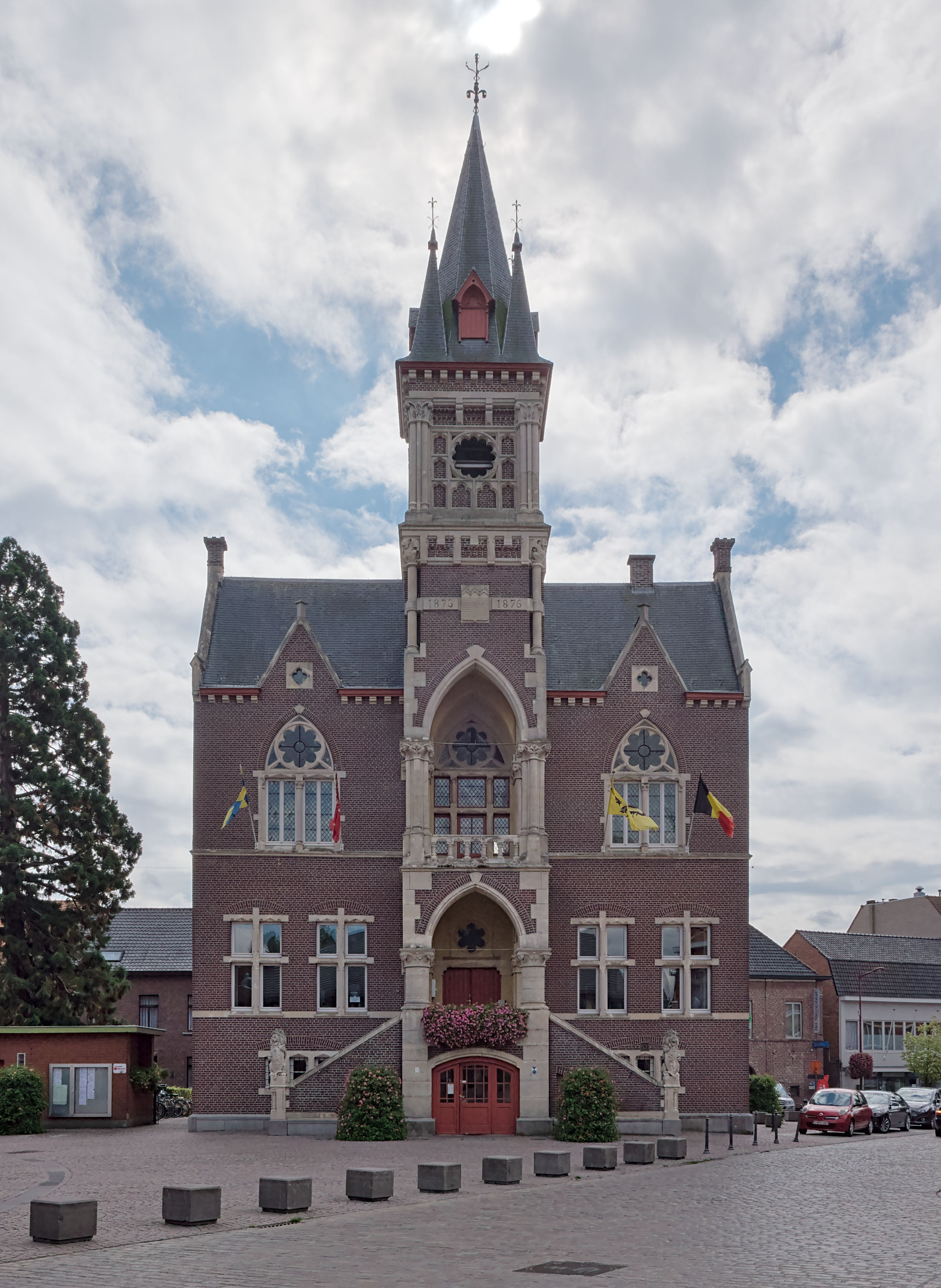 Town hall of Ruiselede This photo of immovable heritage has been taken in the Flemish Region